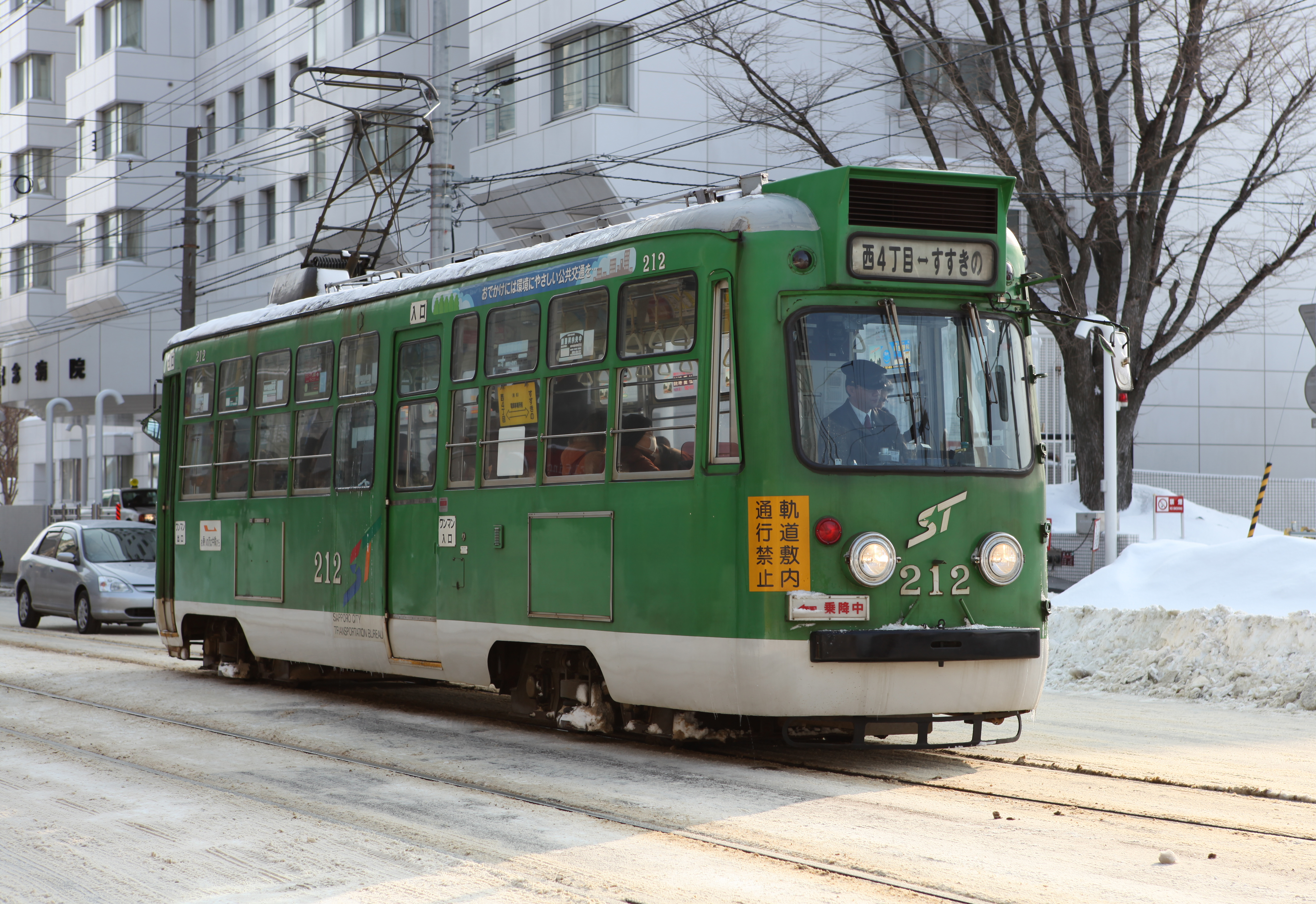 Sapporo tram